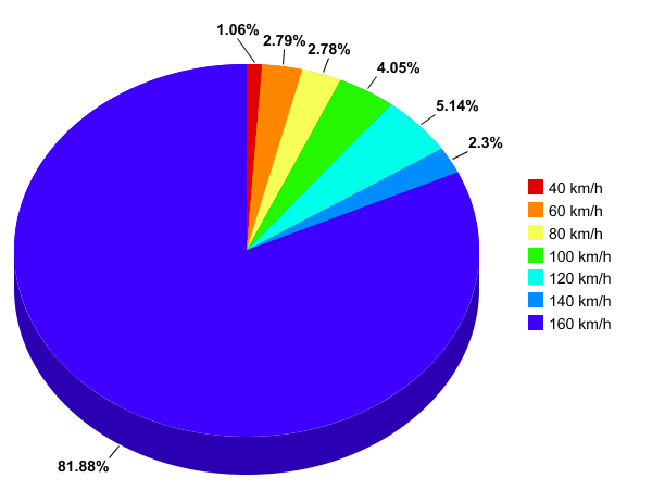 Speed limits chart on railroad nr 2 in Poland